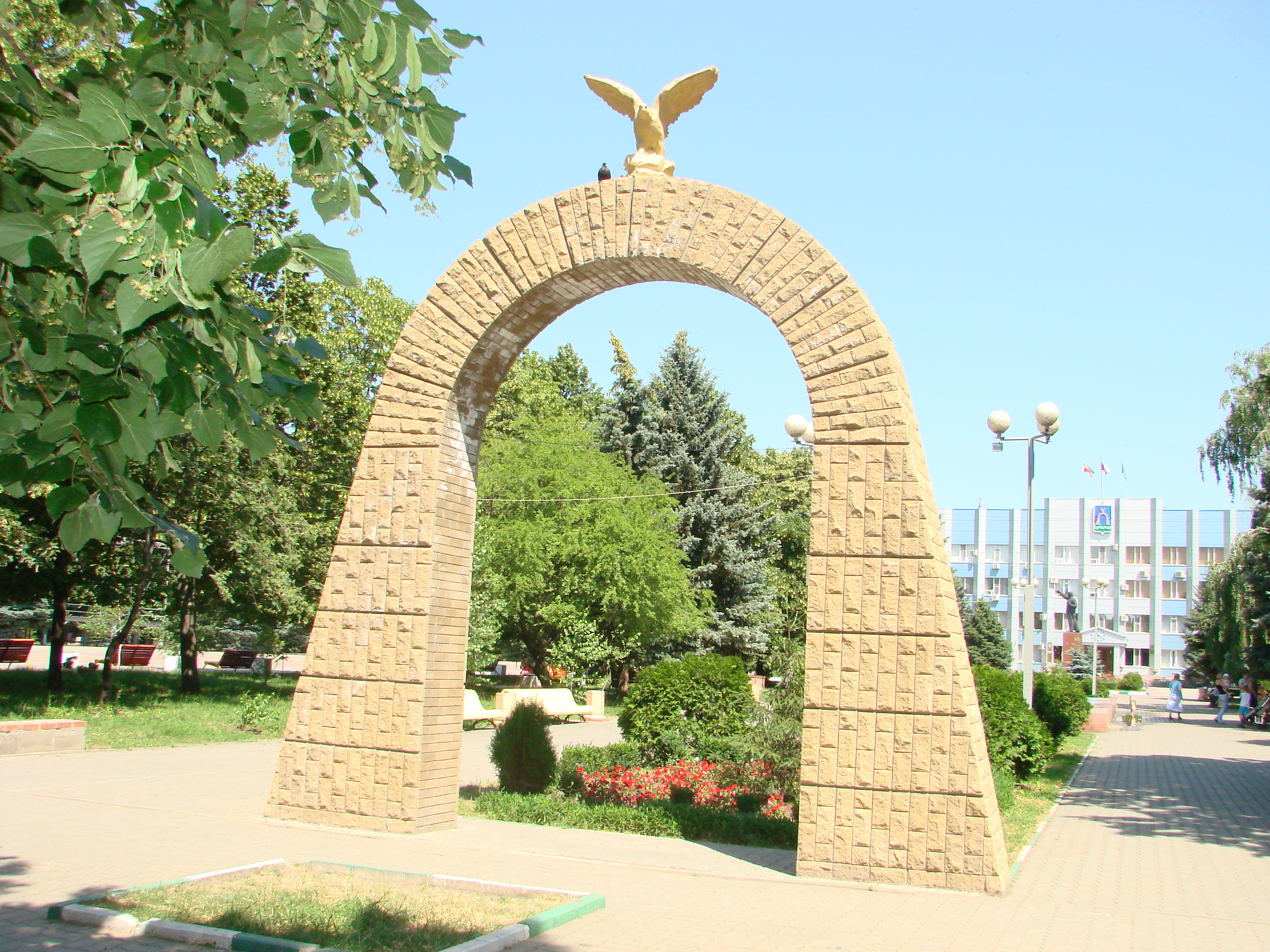 Arch in Bataysk.